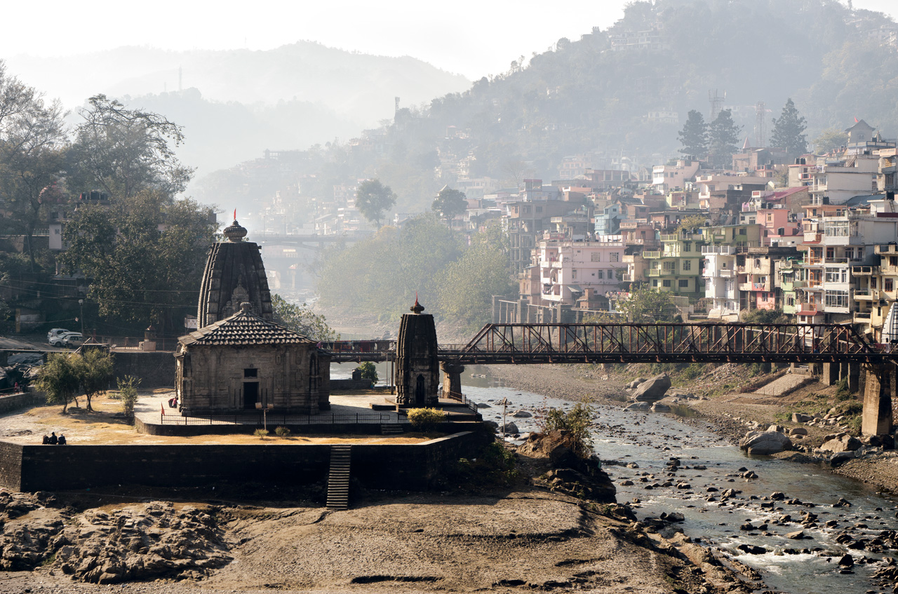 Panchvaktra Temple